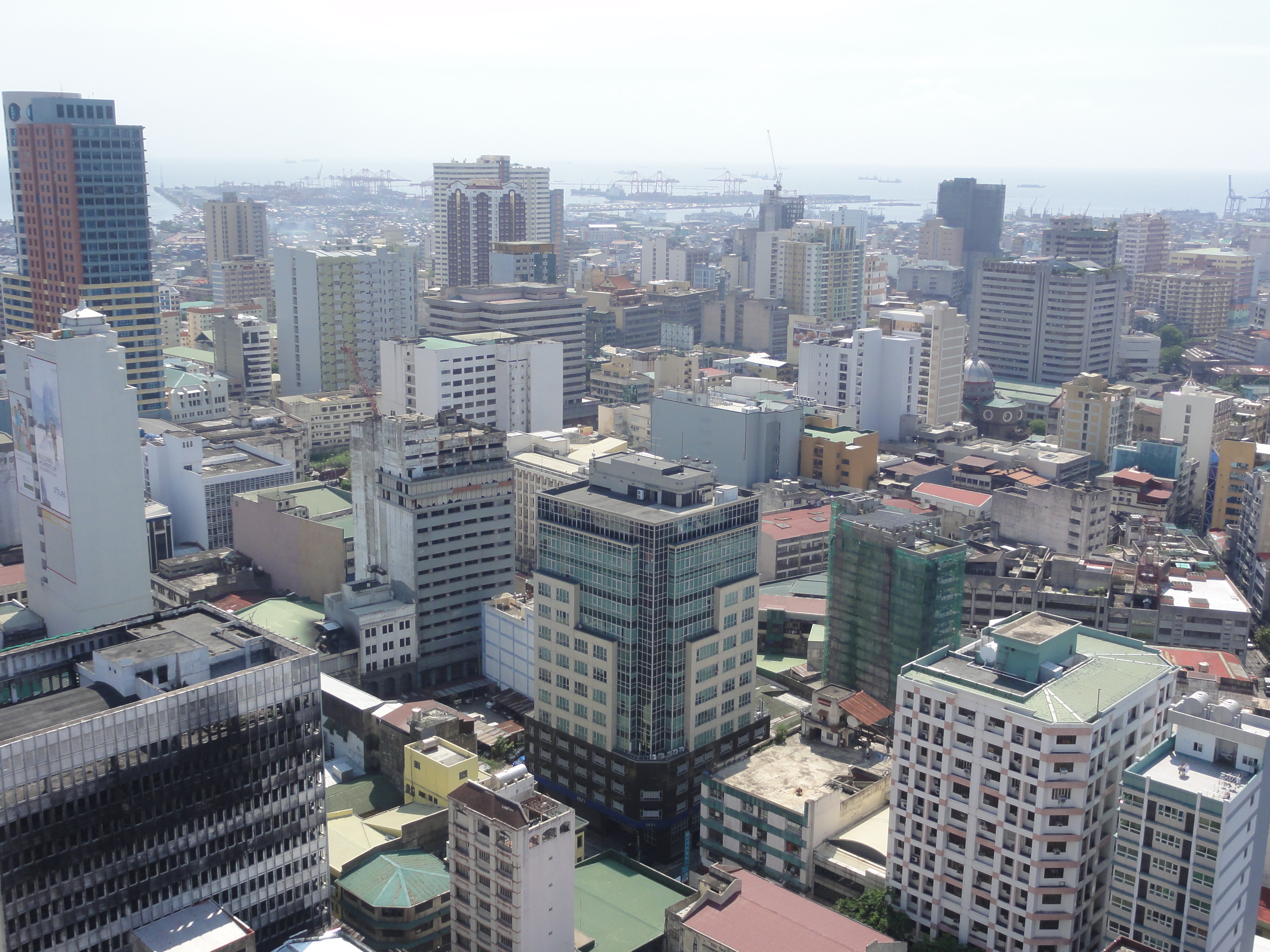 Aerial view of Binondo Chinatown business district in Binondo, Manila as of June 2015.